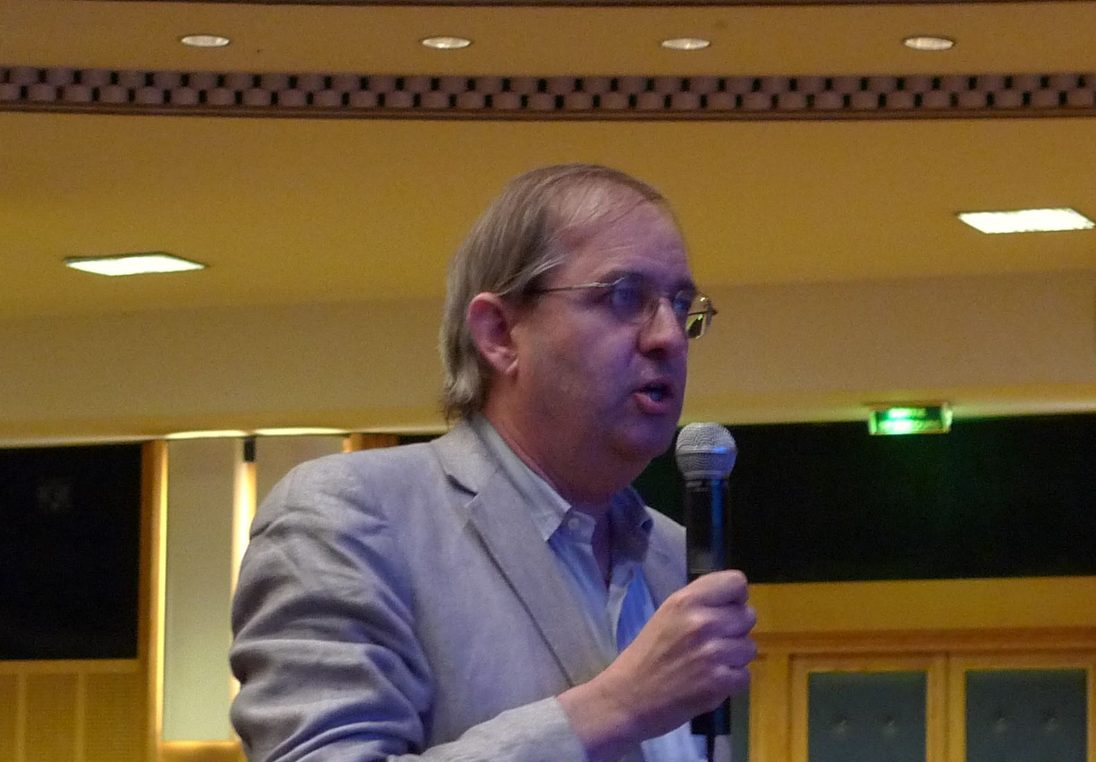 Jean Bricmont (Paris, 2010).